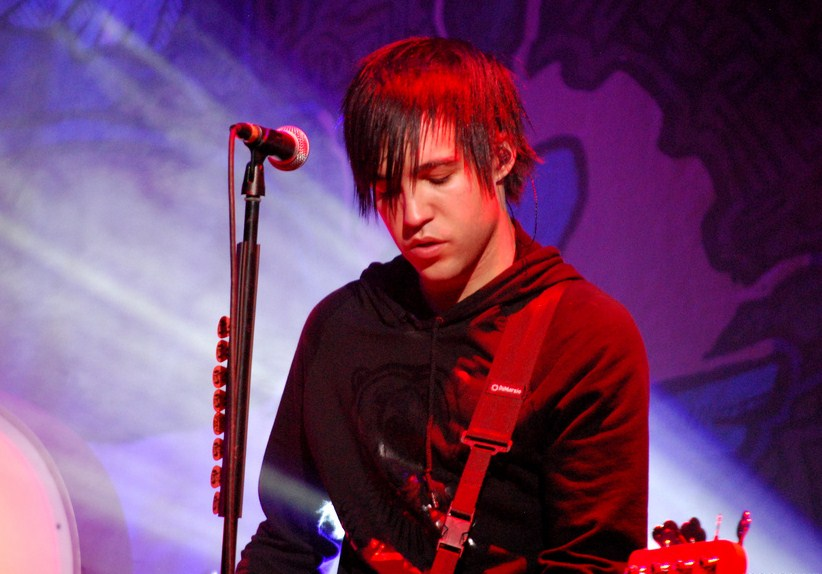 Pete Wentz performing on August 15, 2009 in Tinley Park, Illinois